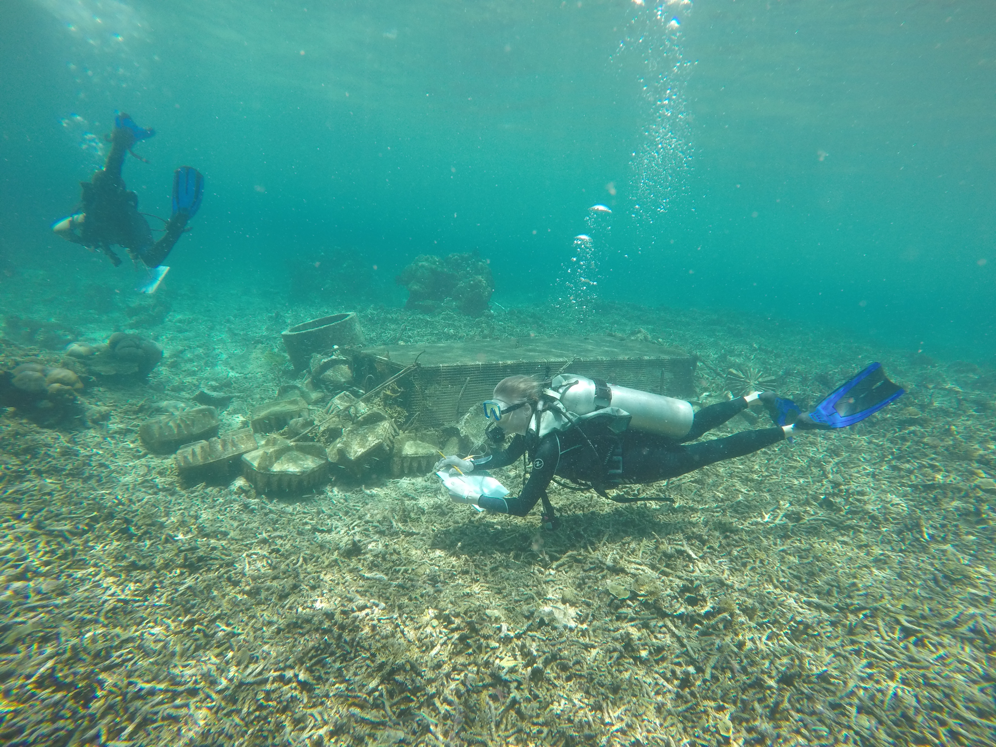 Susan Williams on a dive in the Spermonde Islands getting ready to record data on a coral restoration site.